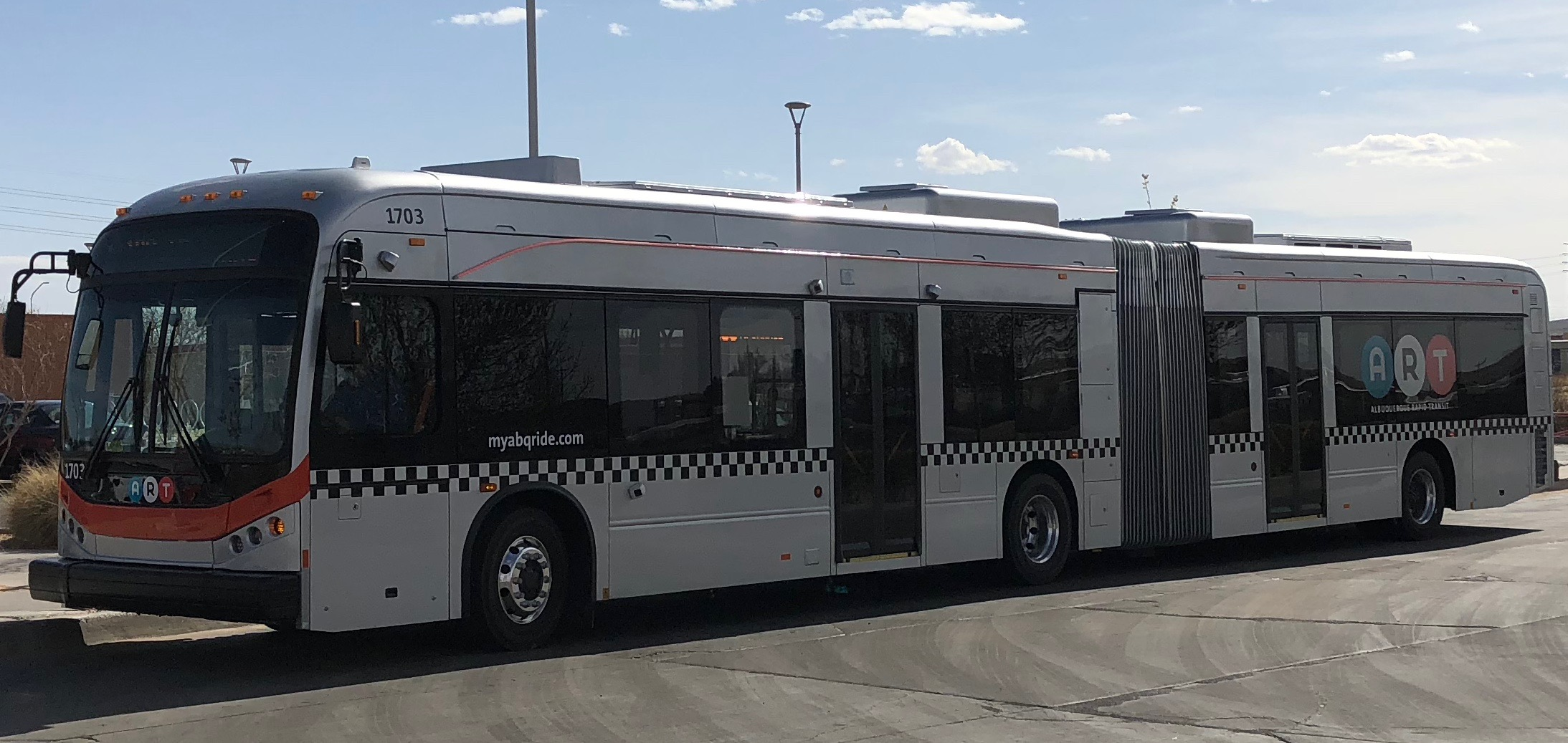 A.R.T Bus